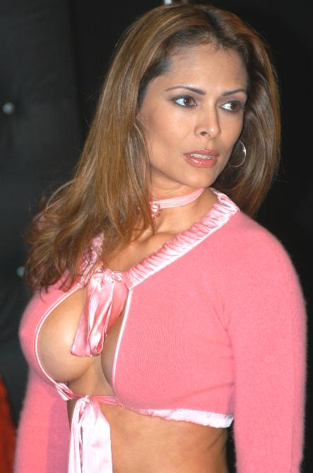 Monique Fuentes on Set of movie `I Dream Of Chasey`, Nov 23, 2004